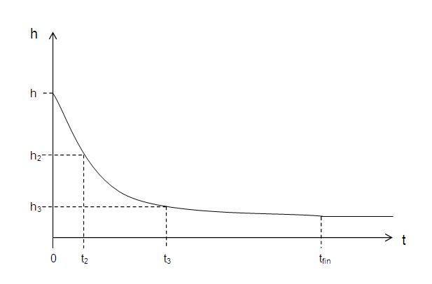 h-t diagram relative to a cylinder test for sedimentation measurements.